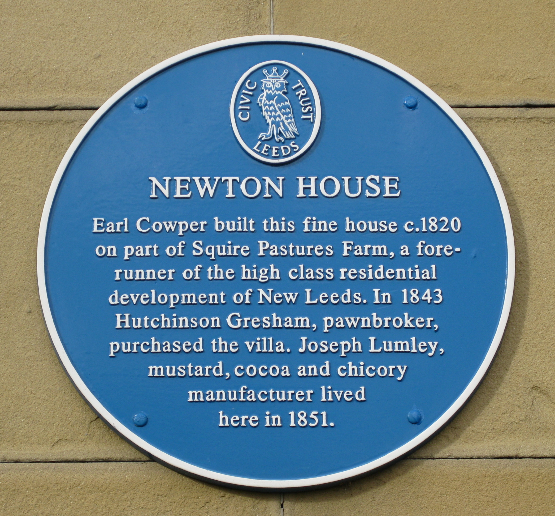 Blue plaque on Newton House, 54, Spencer Place Leeds LS7 4BR